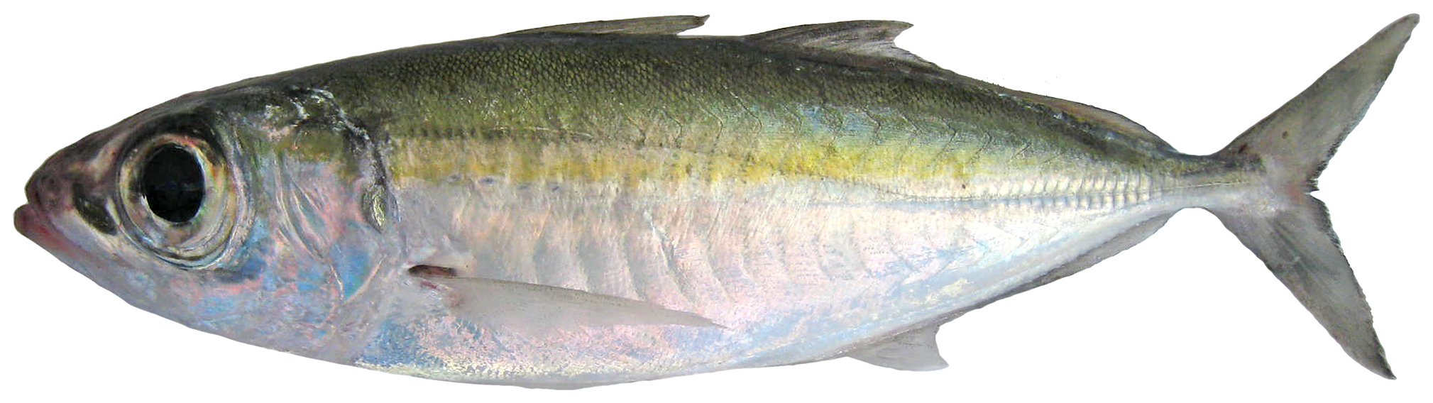 Selar crumenophthalmus (Bloch, 1793)—bigeye scad, 240 mm SL. Photo by W Toller.